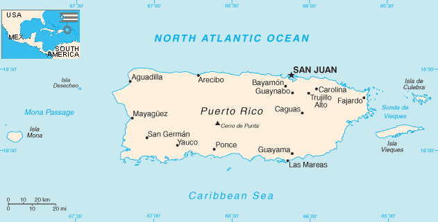 Map of Puerto Rico, with inset showing it's position in relation to American continents.